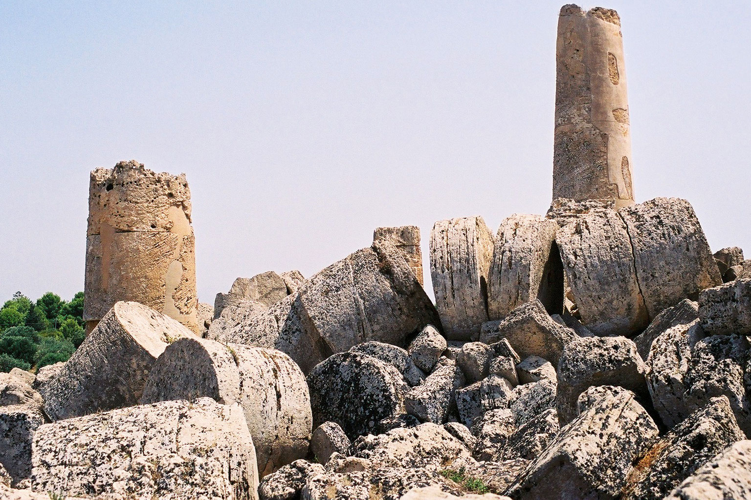 Selinunte (Sicily): Temple G